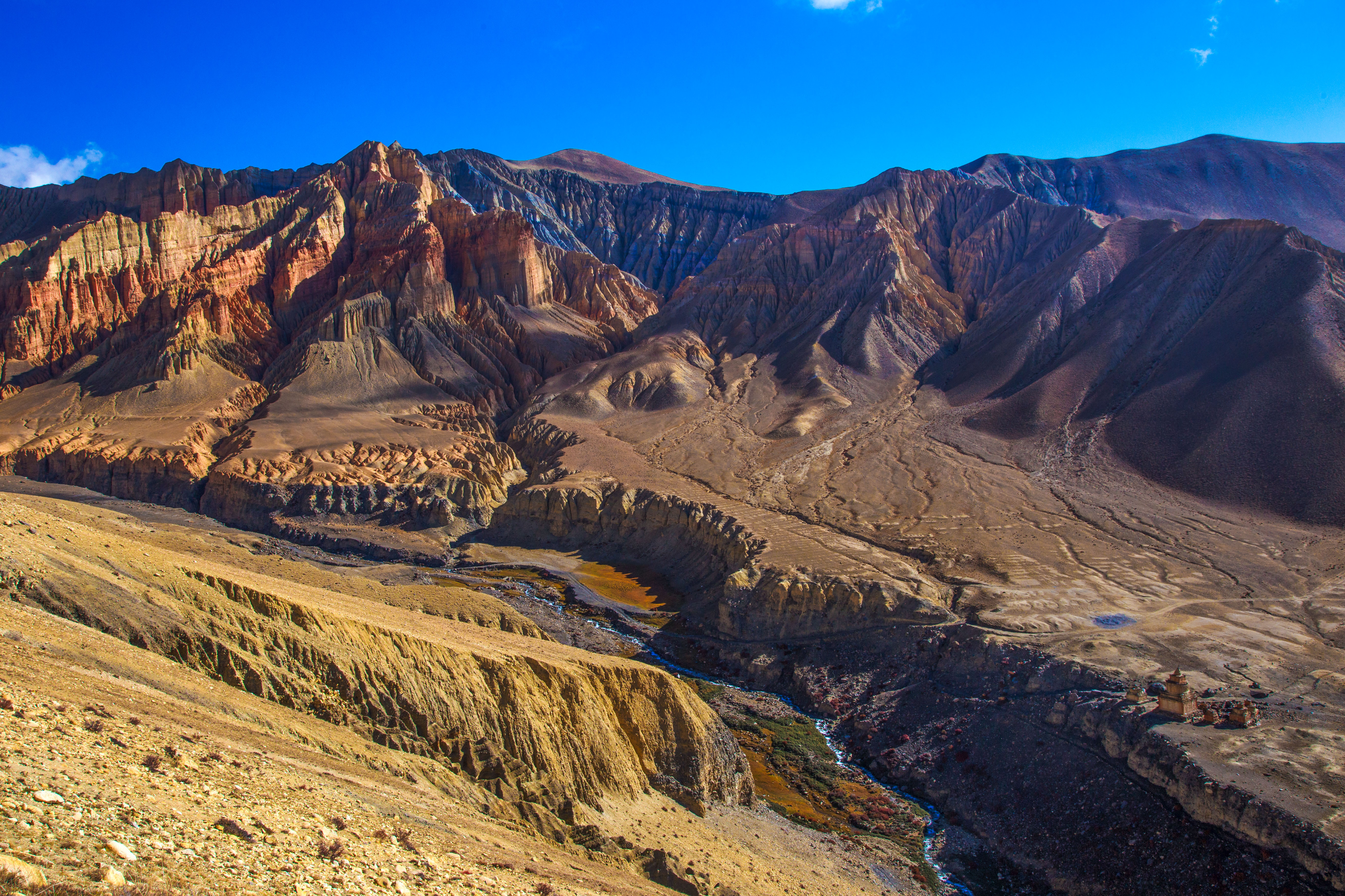 Drakmar is a site where the landscape and man-made structures illustrate a well known Tibetan myth. Here Guru Rimpoche (Padmasambhava) eviscerated a huge demoness, the Balmo, her blood and liver dyeing the steep eroded hills in red and purple-grey. Her intestines are a long wall of mani stones (inscribed with prayers) and a large chorten pins down her heart. Smaller clusters of chortens cover drops of her blood. - Rob Powell, Earth Door, Sky Door